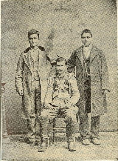 Dimitar and Georgi Zimbilev and Krastyo Dabizhurov - bulgarian revolutionaries from Macedonia